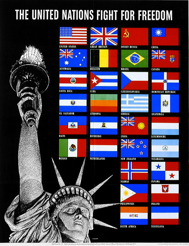 The United Nations fight for freedomPoster depicts an etching of the Statue of Liberty on a black background on the left side of the poster. The flags of the wartime "big four" are in the top row, while the others are listed in alphabetical order below. On the right there are pictures of flags of 30 countries. Poster has black background with white text at the top of the page and a white border all around.